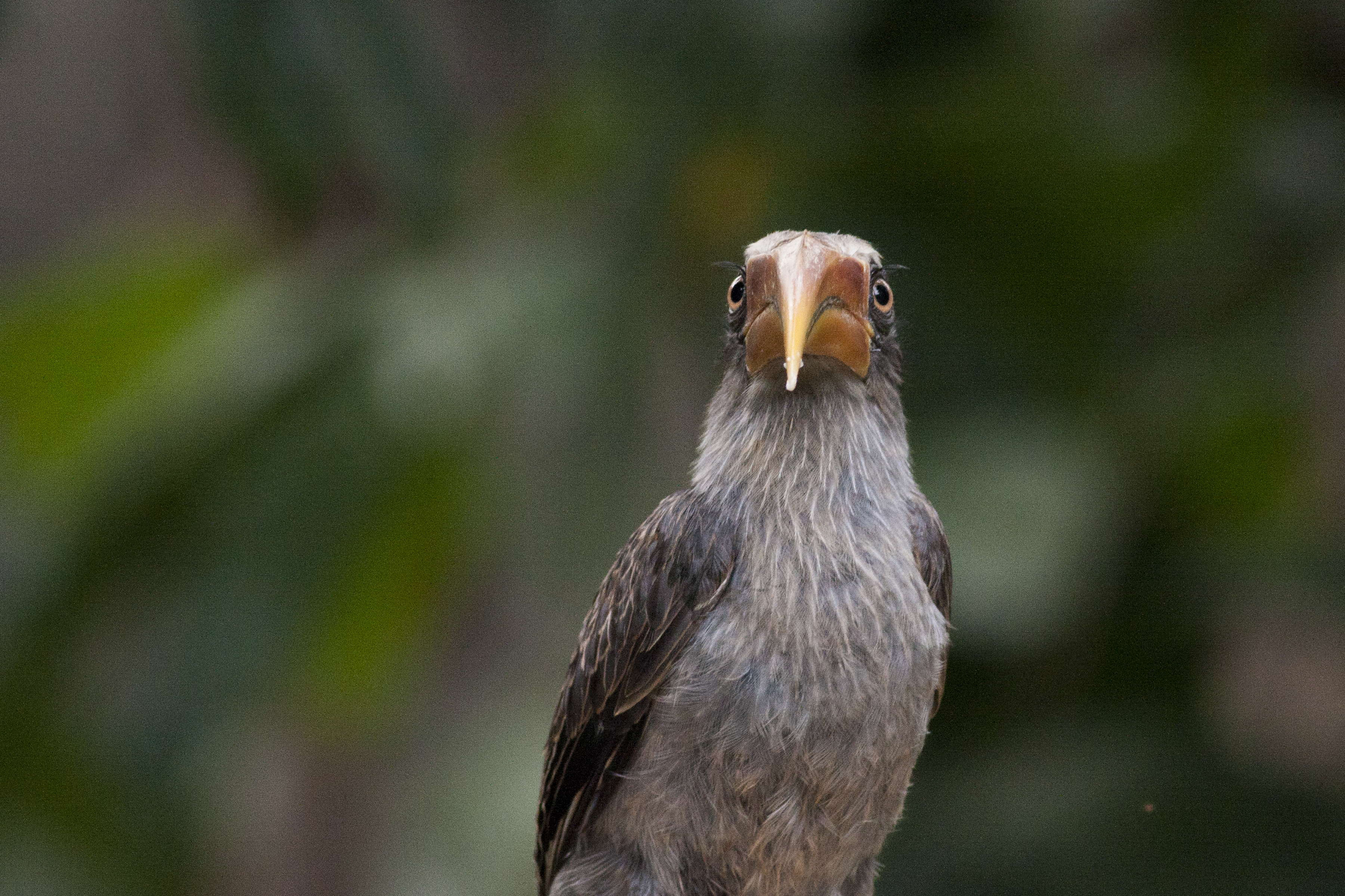 Ocyceros griseus shot in Thattekad, Kerala, India